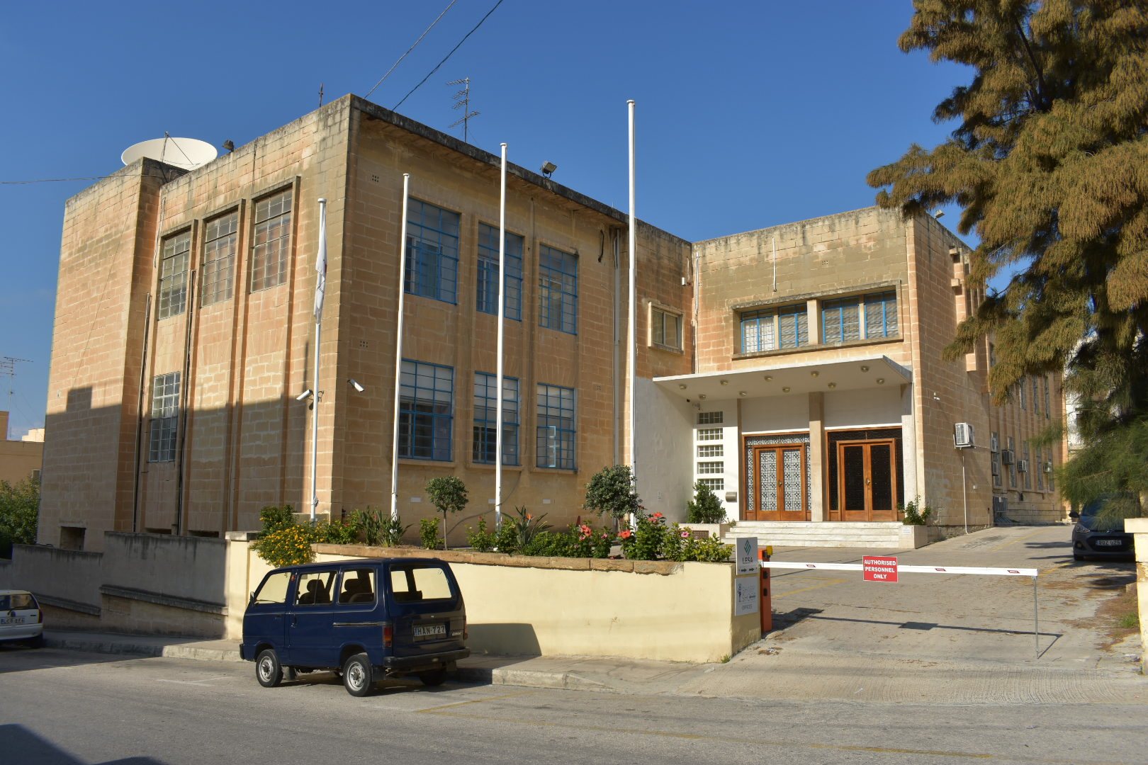 Pietà Malta Buildings